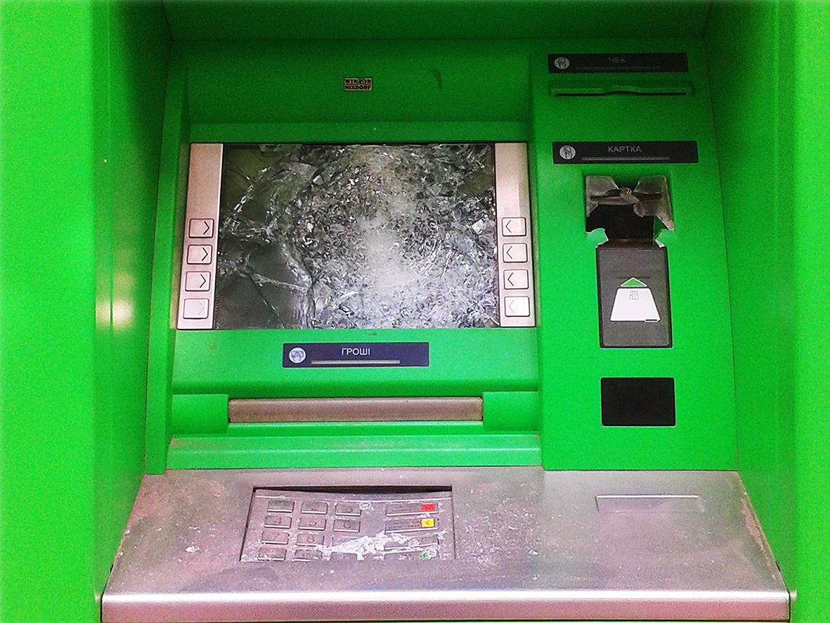 The Luhansk separatists smashed up the banking terminal “Privatbank”